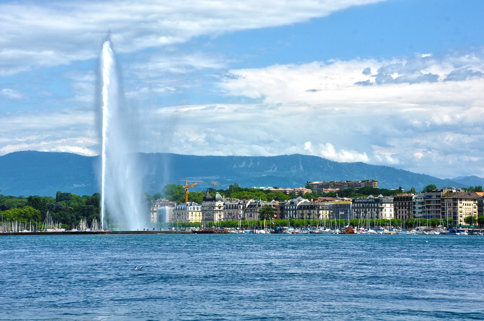 The harbor of Geneva, Switzerland with a view of the Jet d'eau and city buildings.